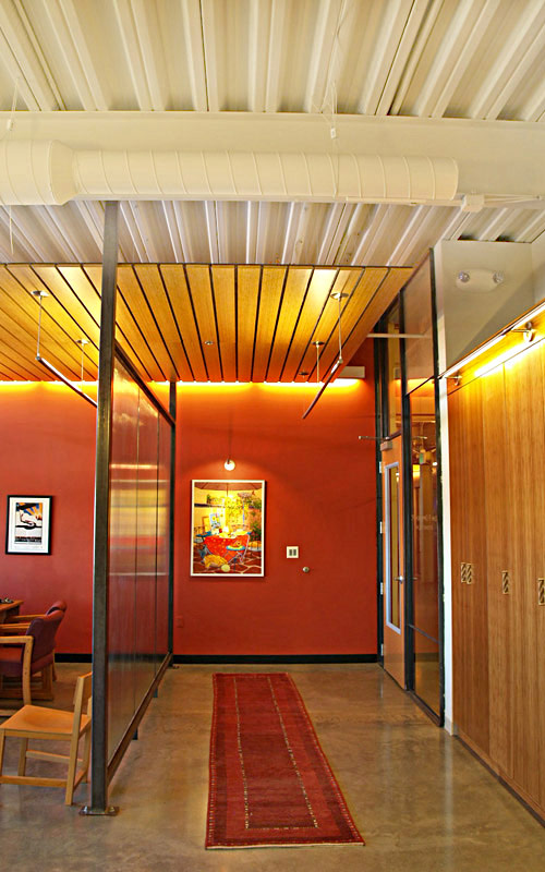 John P. Oppenheim P.C. office interior